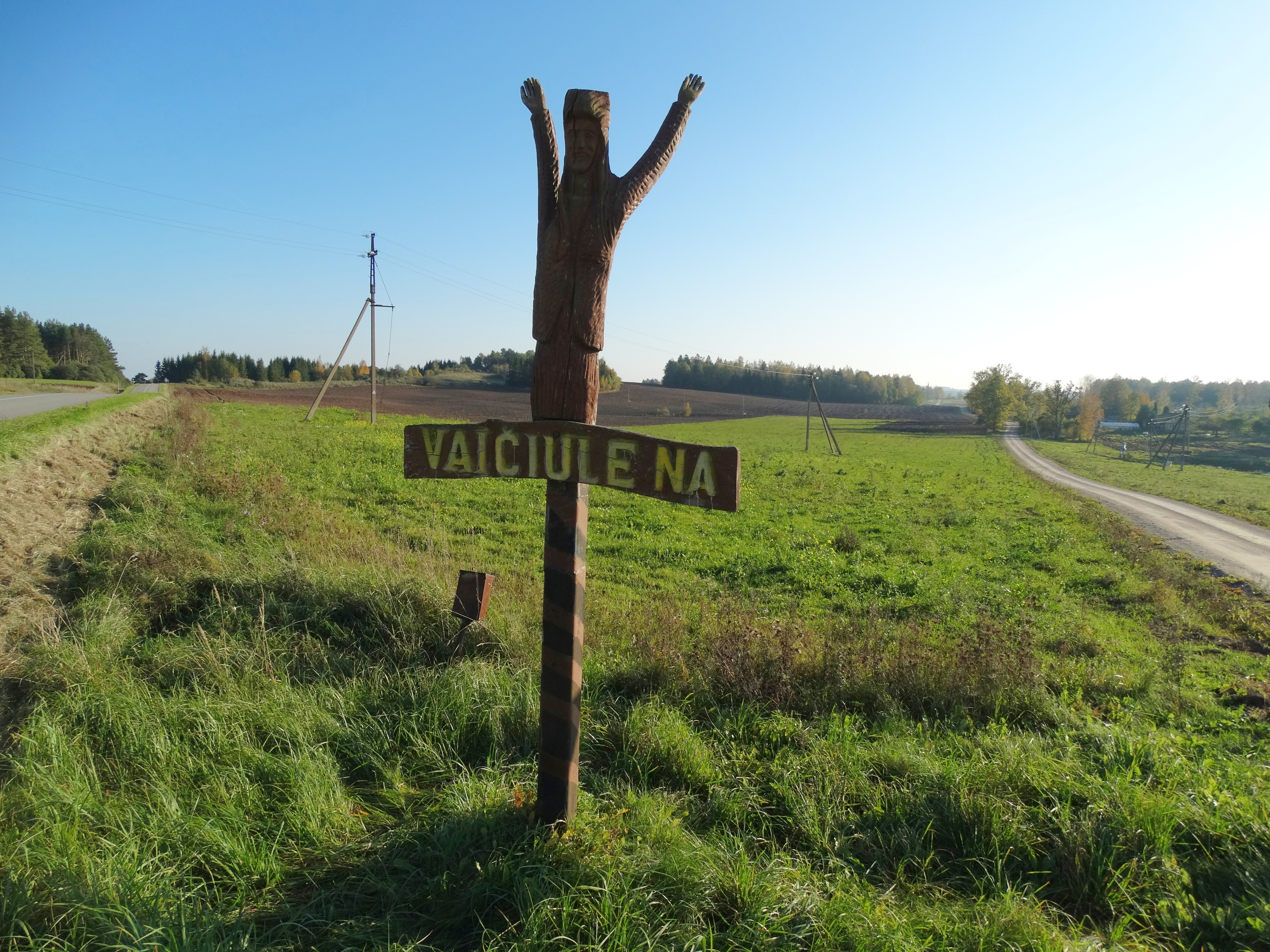 Vaičiulena, Skuodas District, Lithuania